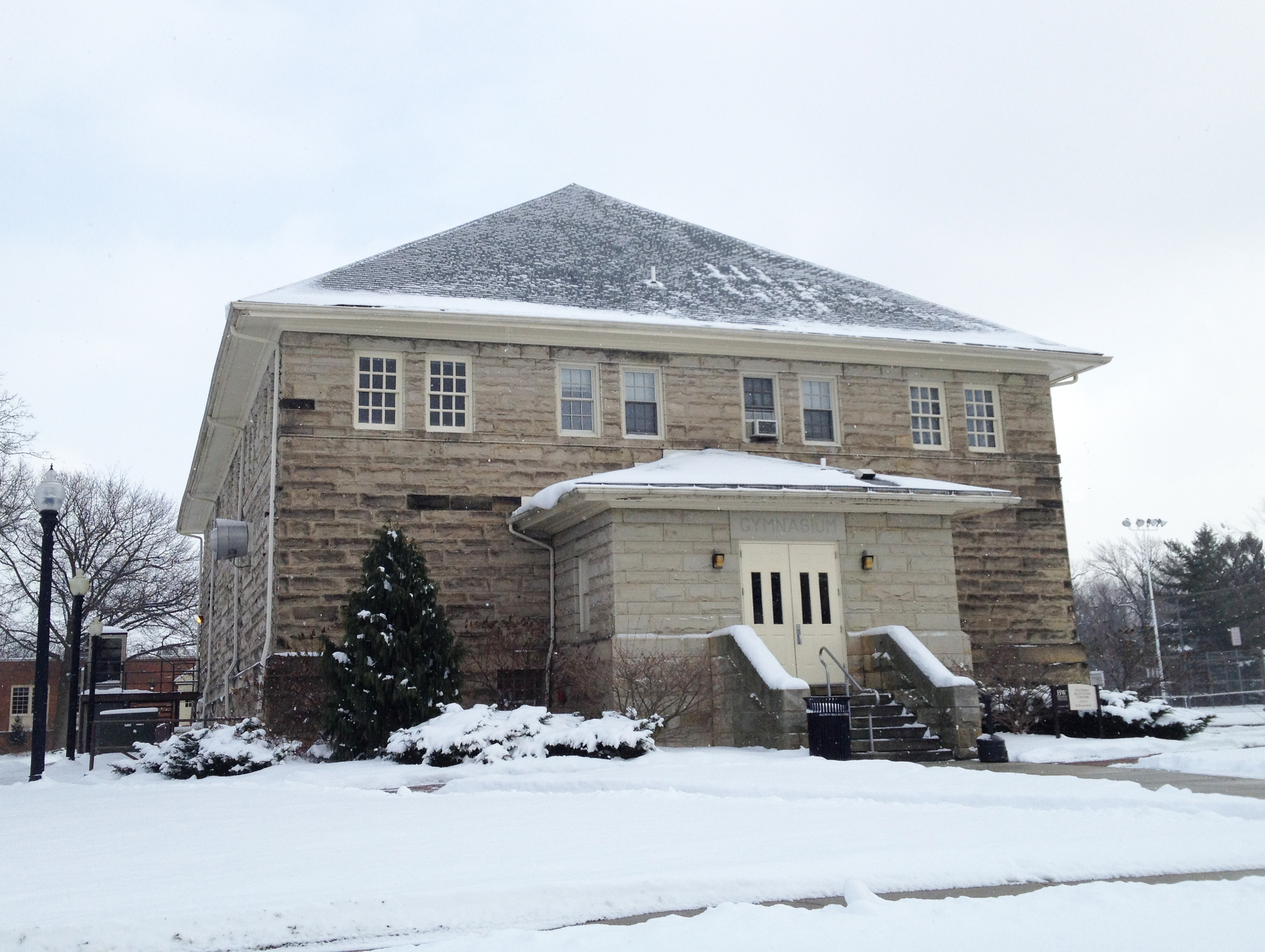 Student Activity Center on Baldwin Wallace University South Campus